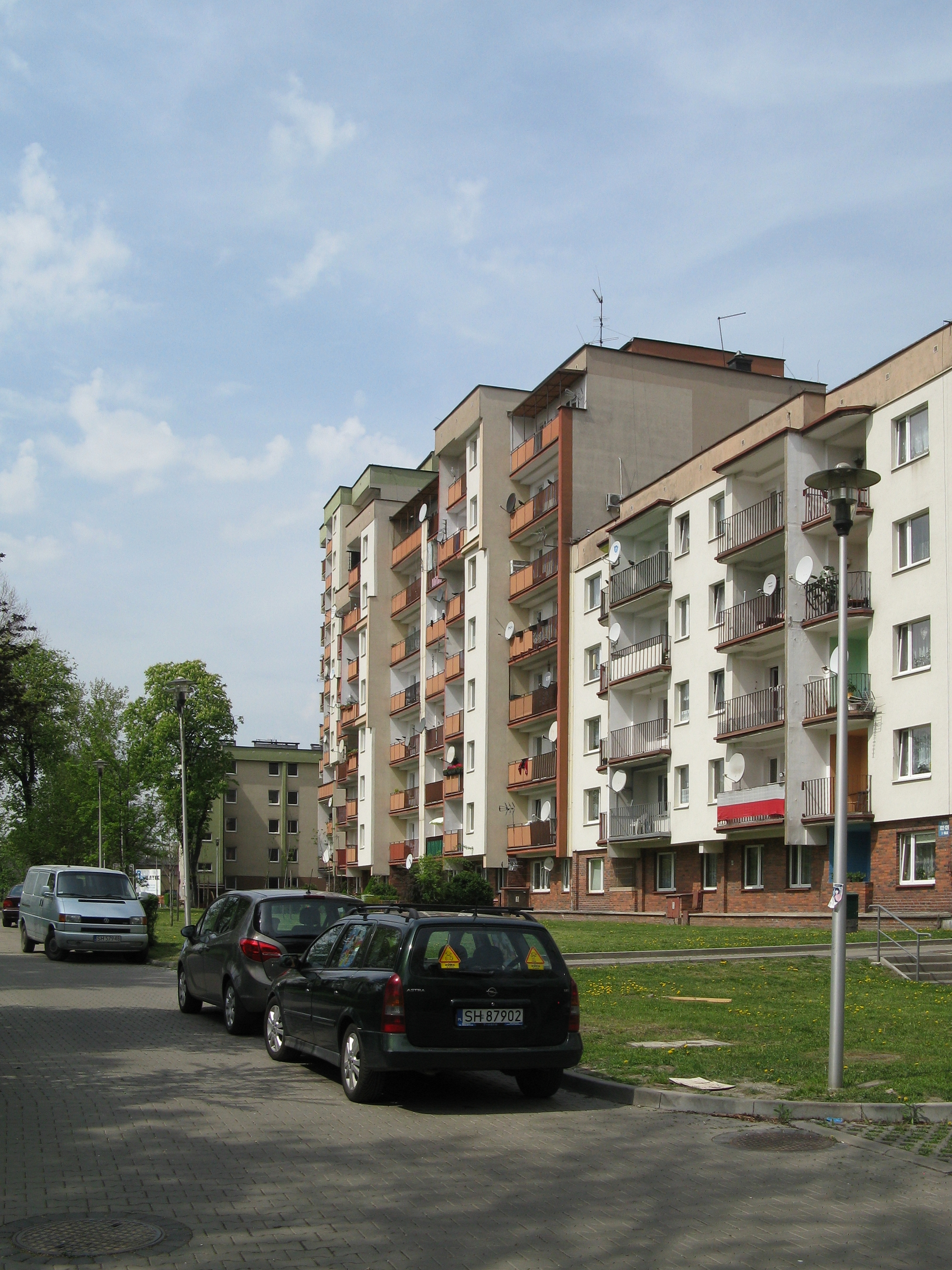 Blocks of flats in Chorzów-Szarlociniec, 3 Maja street, Poland.